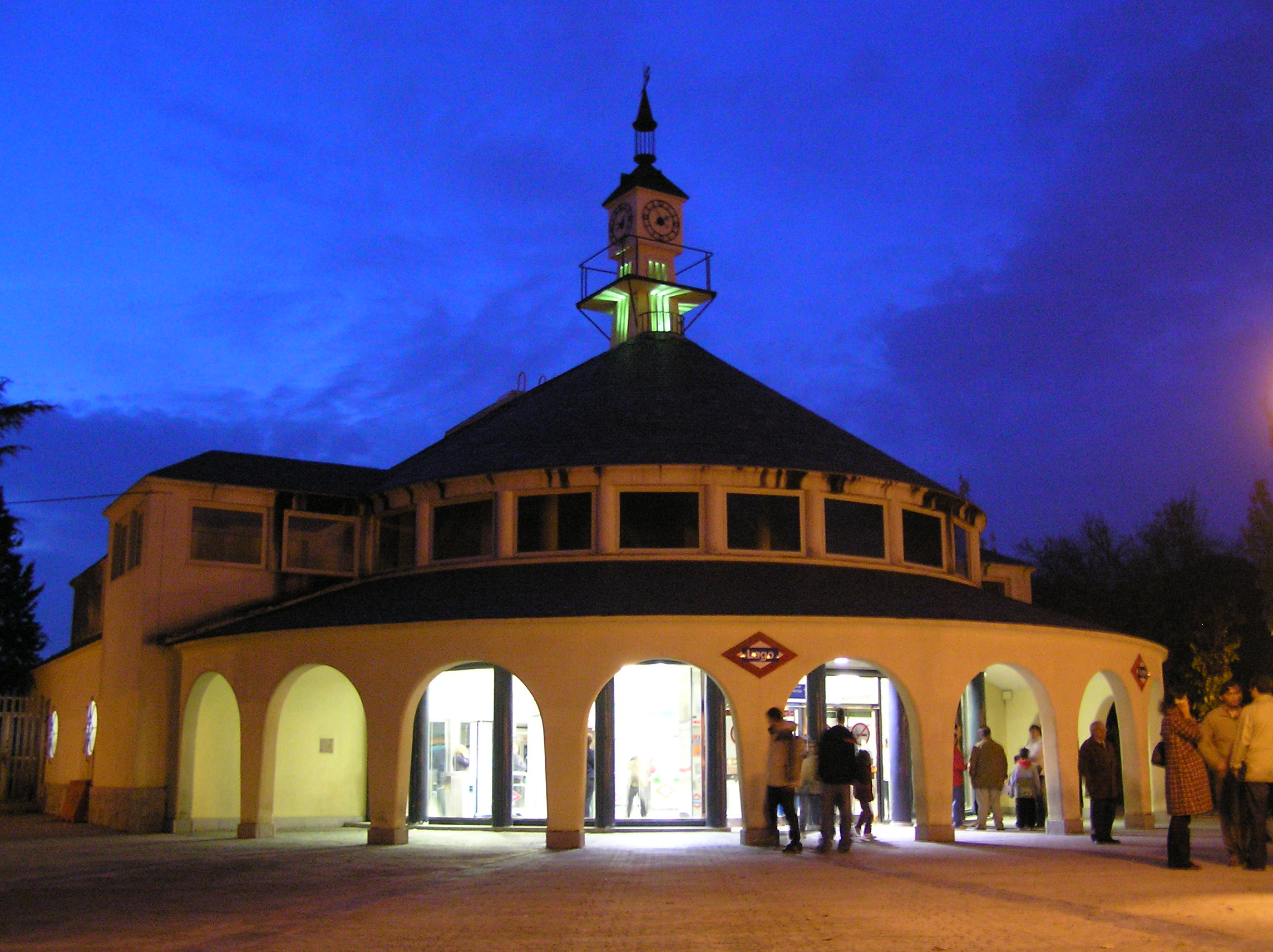 Lago subway station, Madrid, Spain Author: Mr. Tickle Date: November 19th, 2005 Place: Casa de Campo, Madrid, Spain